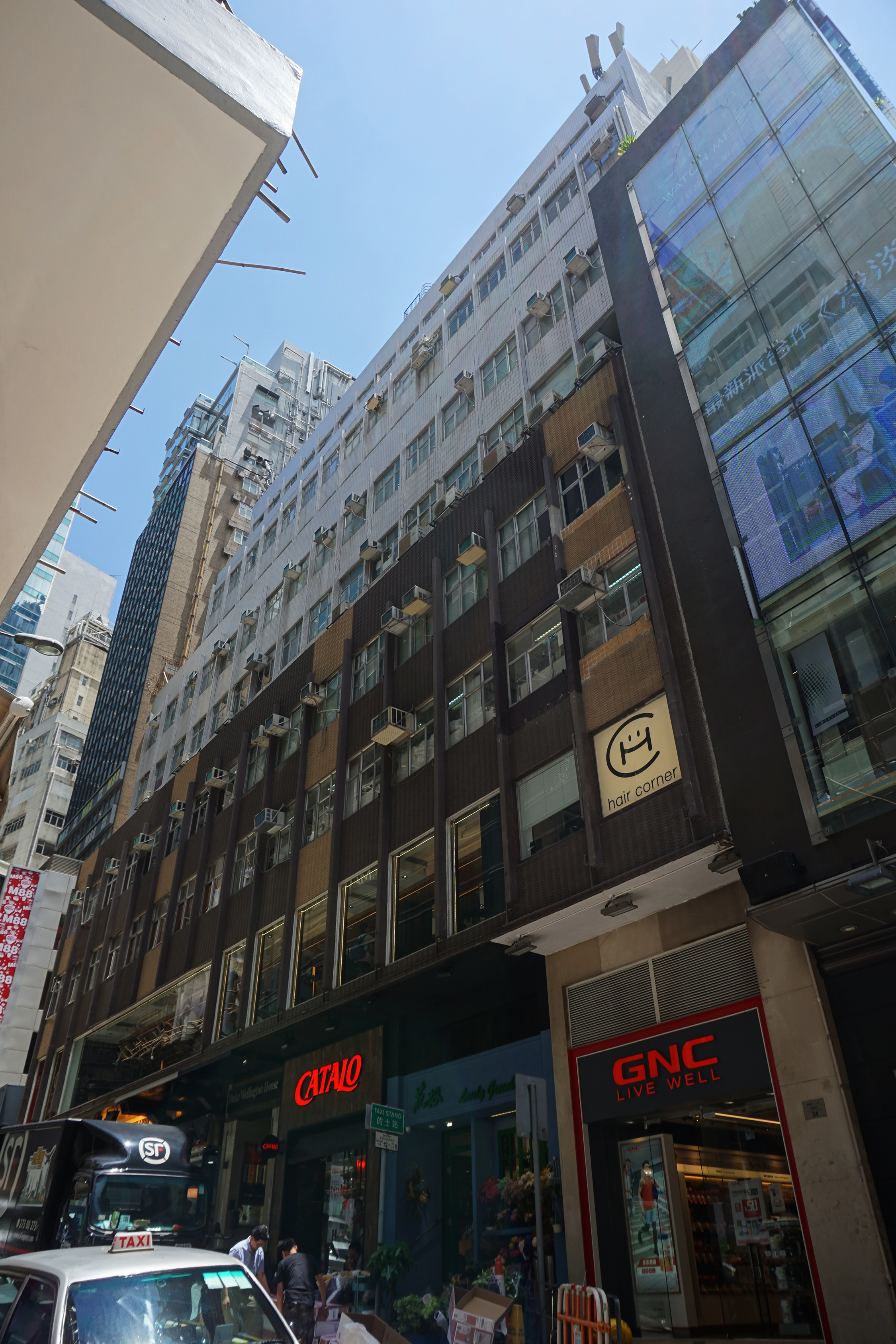 Duke Wellington House in Central, Hong Kong.